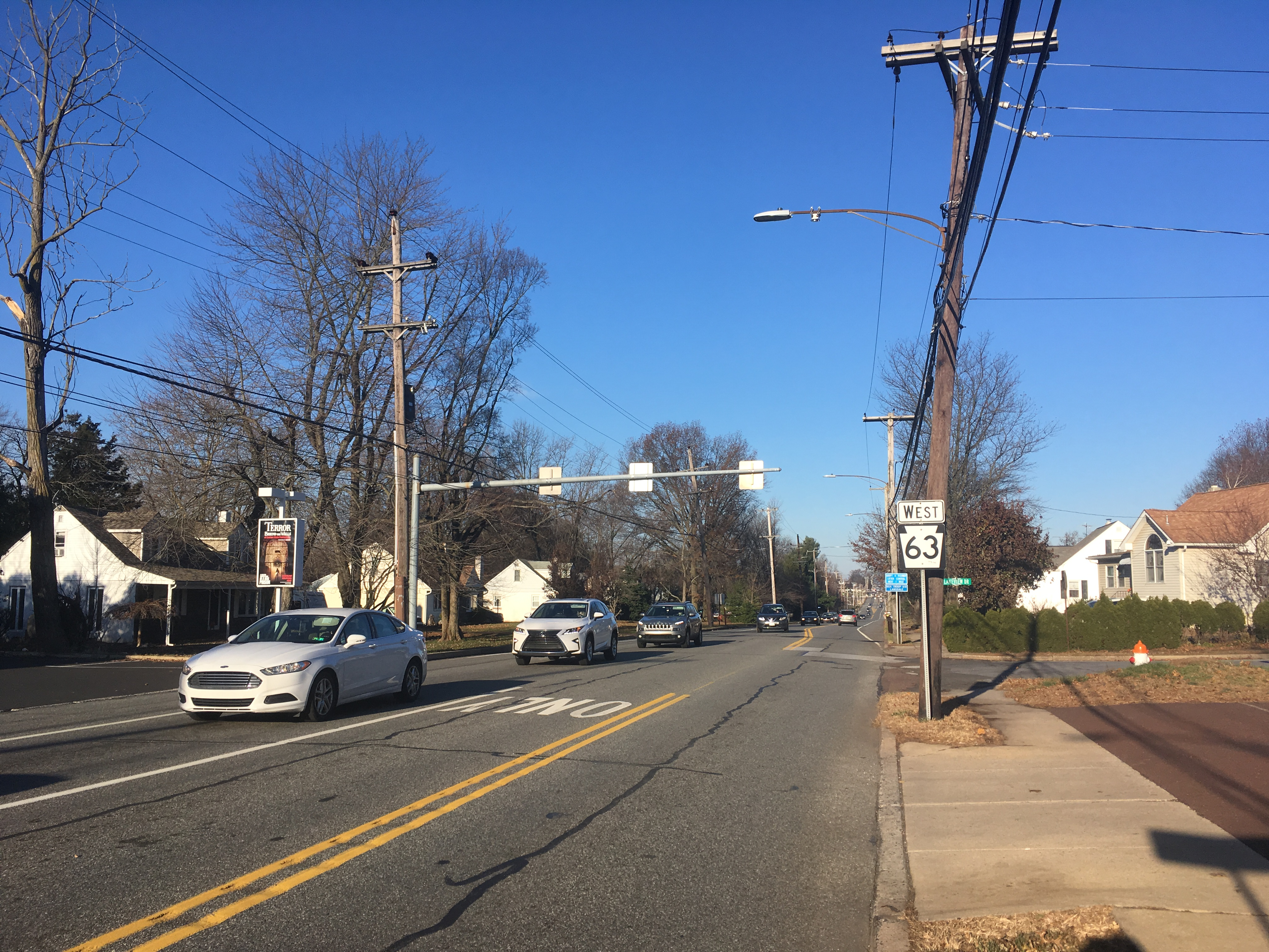 Westbound Pennsylvania Route 63 (Main Street) past the intersection with North Wales Road in Lansdale, Pennsylvania